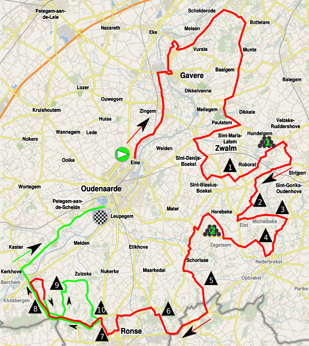 Map of the Ronde van Vlaanderen vrouwen 2013.